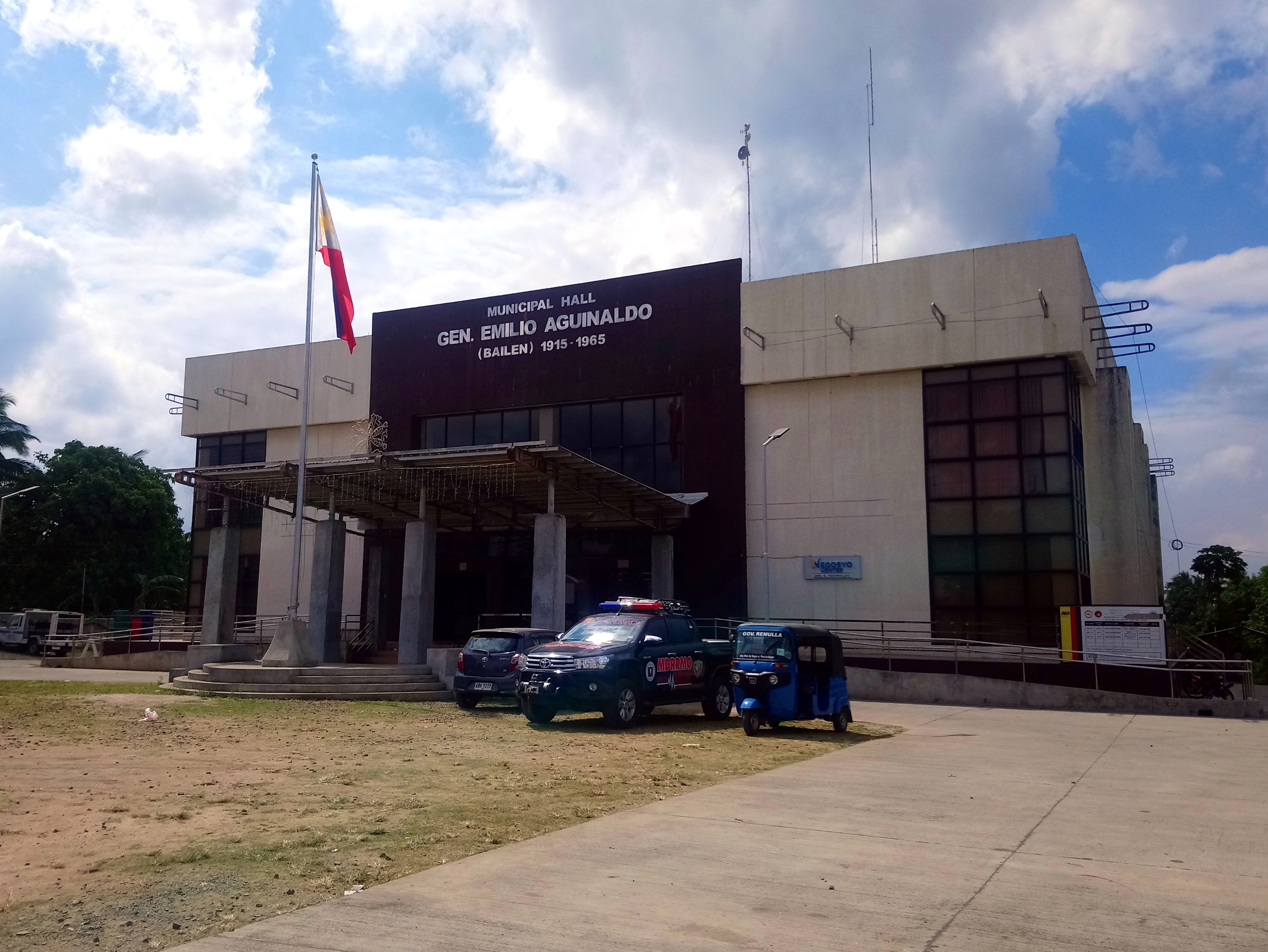 The new General Emilio Aguinaldo Municipal Hall located along Alfonso-General Emilio Aguinaldo Road in Barangay Castaños Cerca replaced the old municipal hall located at Barangay Poblacion 1.